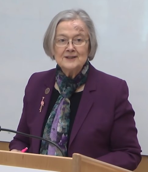 The Right Honourable Brenda Marjorie Hale, Baroness Hale of Richmond, Dame Commander of the Most Excellent Order of the British Empire, Member of Her Majesty's Most Honourable Privy Council, Fellow of the British Academy